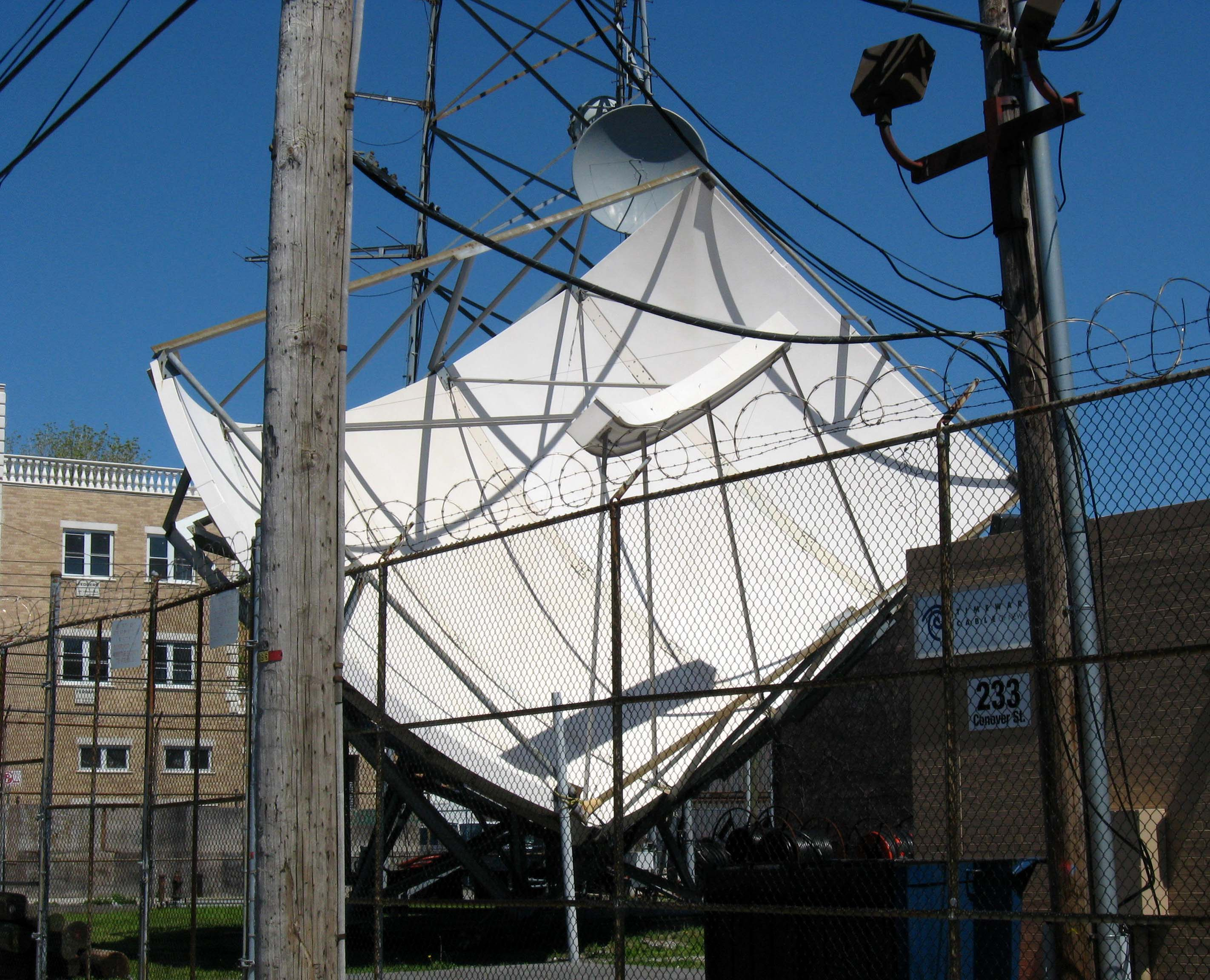 Looking east on a sunny midday at toroidal arc satellite antenna of Head end of Time Warner Cable on Conover Street between Beard and Van Dyke Streets, South Brooklyn. Disappeared about 2012.